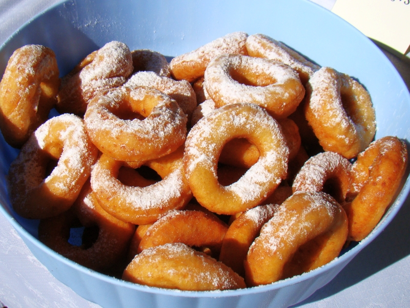 paczki